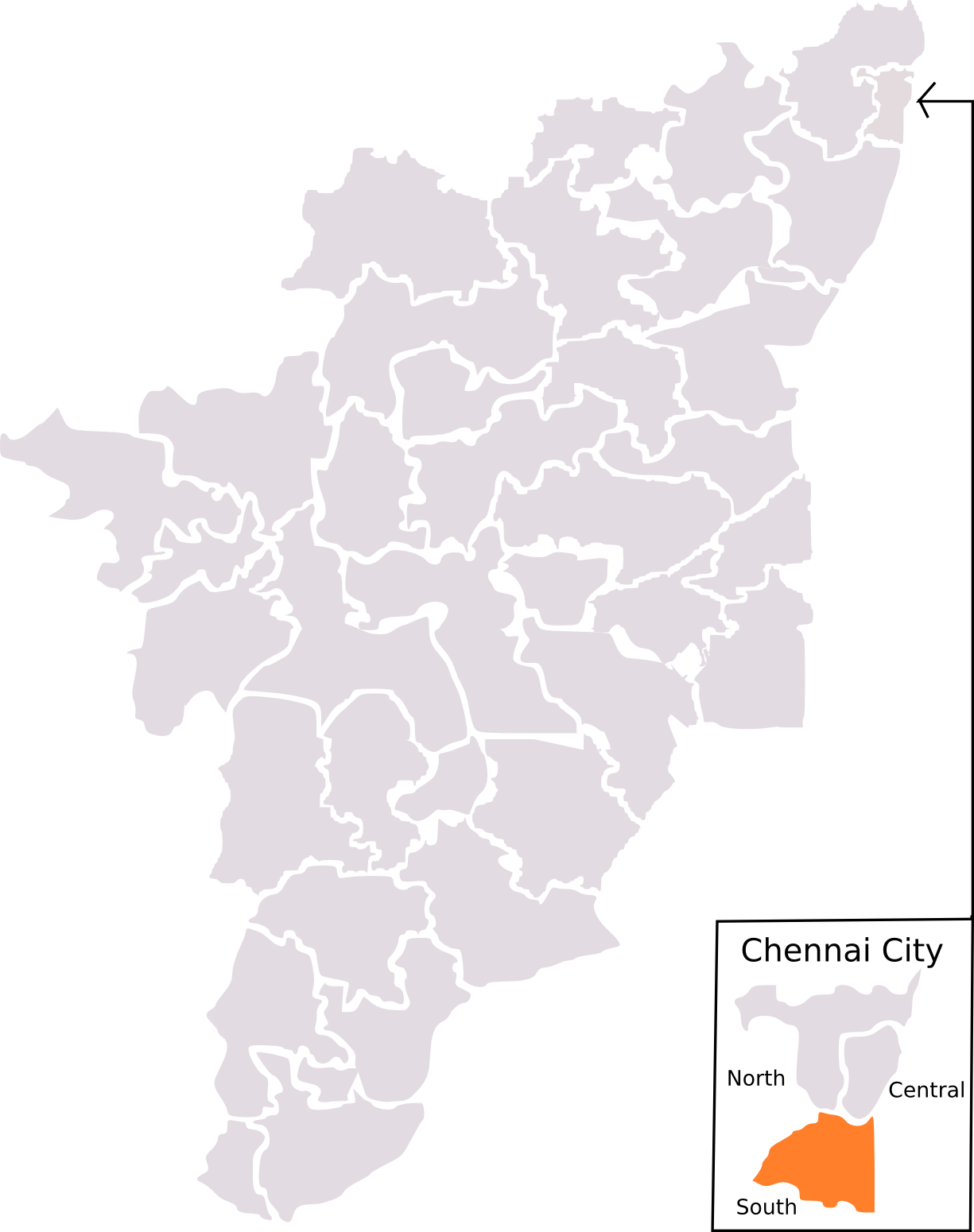 Lok Sabha Election map for Tamil Nadu that illustrates constituencies put in place by 1971 delimitation that was replaced in 2008. Map is based on ECI drawn map.